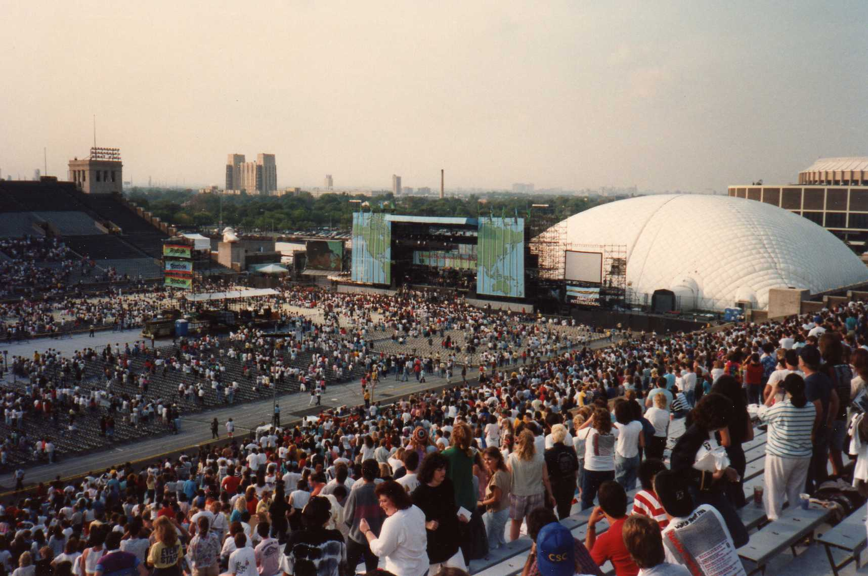 Early stages of the Amnesty International Human Rights Now! concert at JFK Stadium in Philadelphia